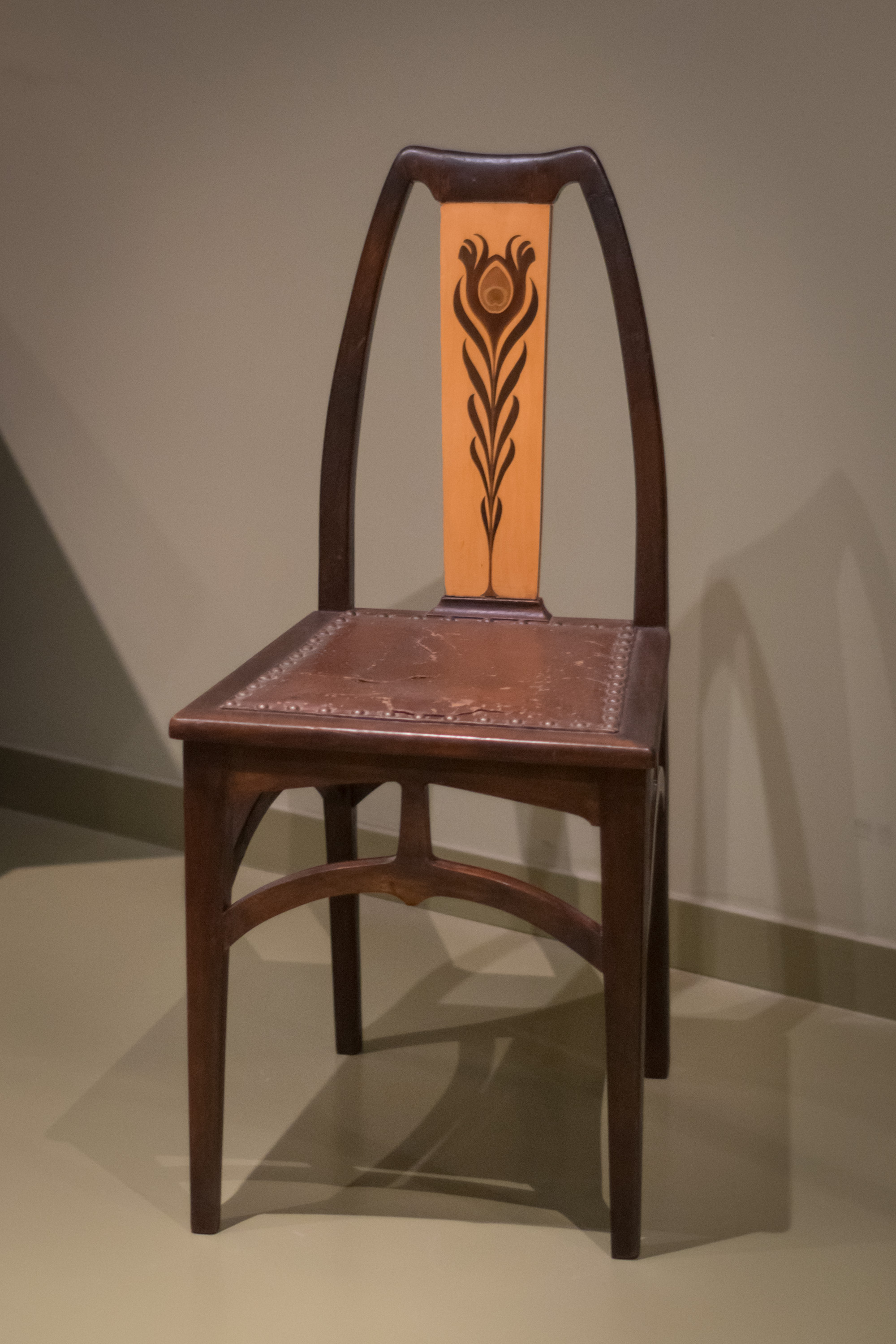 Gift of Max Palevsky and Jodie Evans in honor of the museum's twenty-fifth anniversary.